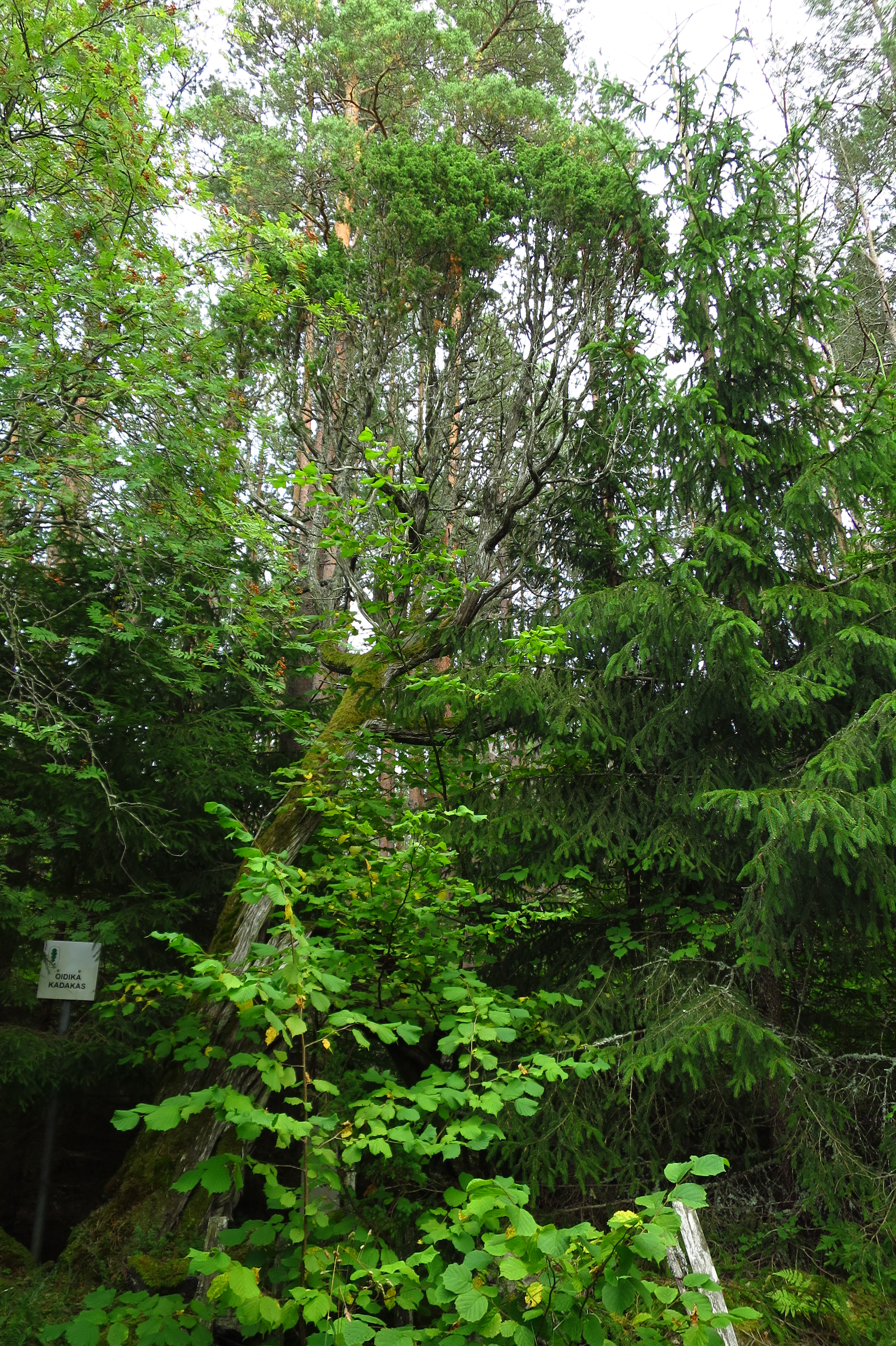 Oidika kadakas Saaremaal. Hindu küla